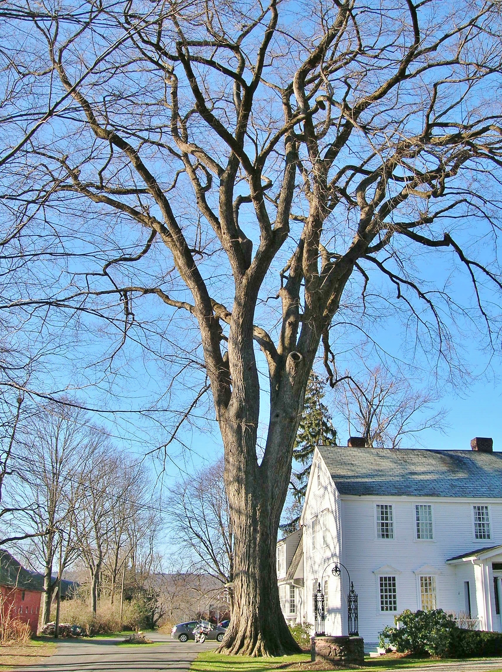 Photograph of a large American elm tree in Old Deerfield, MA. The tree was removed as a result of Dutch elm disease in 2017. This photo was taken in December 2011 when the tree was still alive and appeared to be thriving.